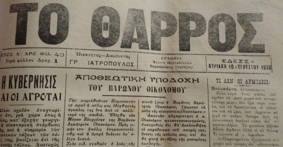 Tharros 10 August 1930